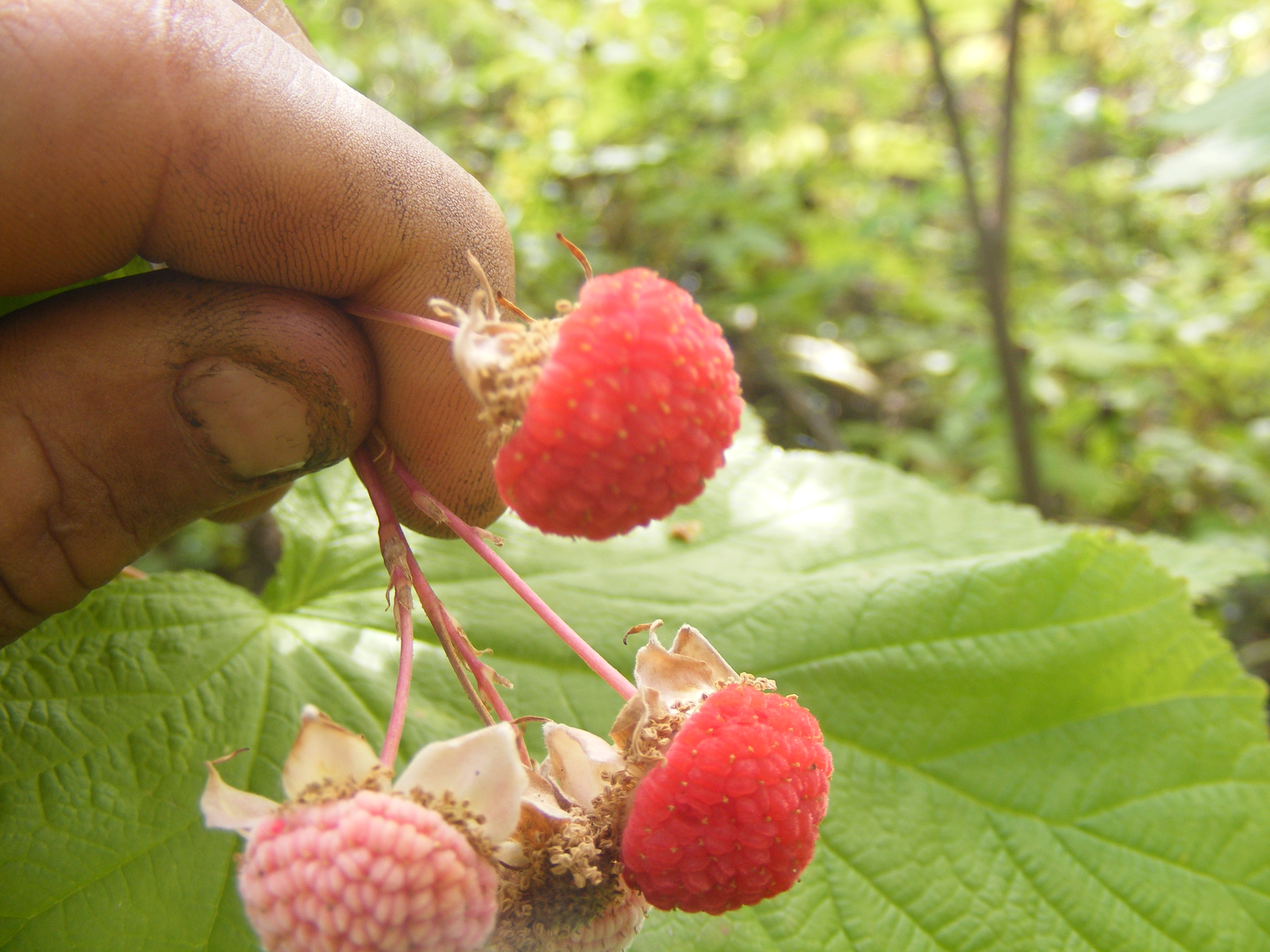 Thimbleberry (Rubus parviflorus) -- fruits. Photo taken in the Selkirk Mountains of northern Idaho.